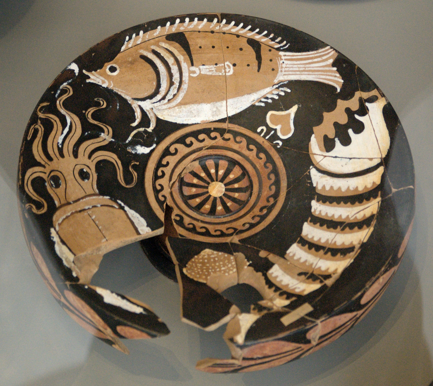 Apulian red-figure fish plate, ca. 340 BC.